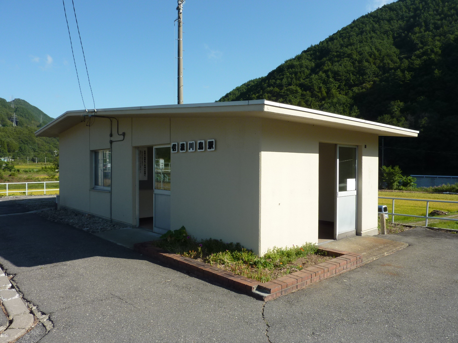 Shinano-Kawashima Station on JR Chuo Line. (1061,Kamijima,Tatsuno-machi,Kamiina-gun,Nagano-ken,JAPAN)